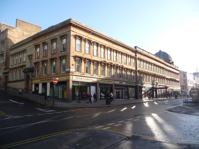 Glasgow: the McLellan Galleries building This building was erected in 1856, two years after the death of Archibald McLellan after whom it is named. The occupies of the frontage shops – two examples being Jessop's the photographical store and the British Heart Foundation charity shop – eschew their usual colourful signboards, maintaining a more traditional look to the long façade.